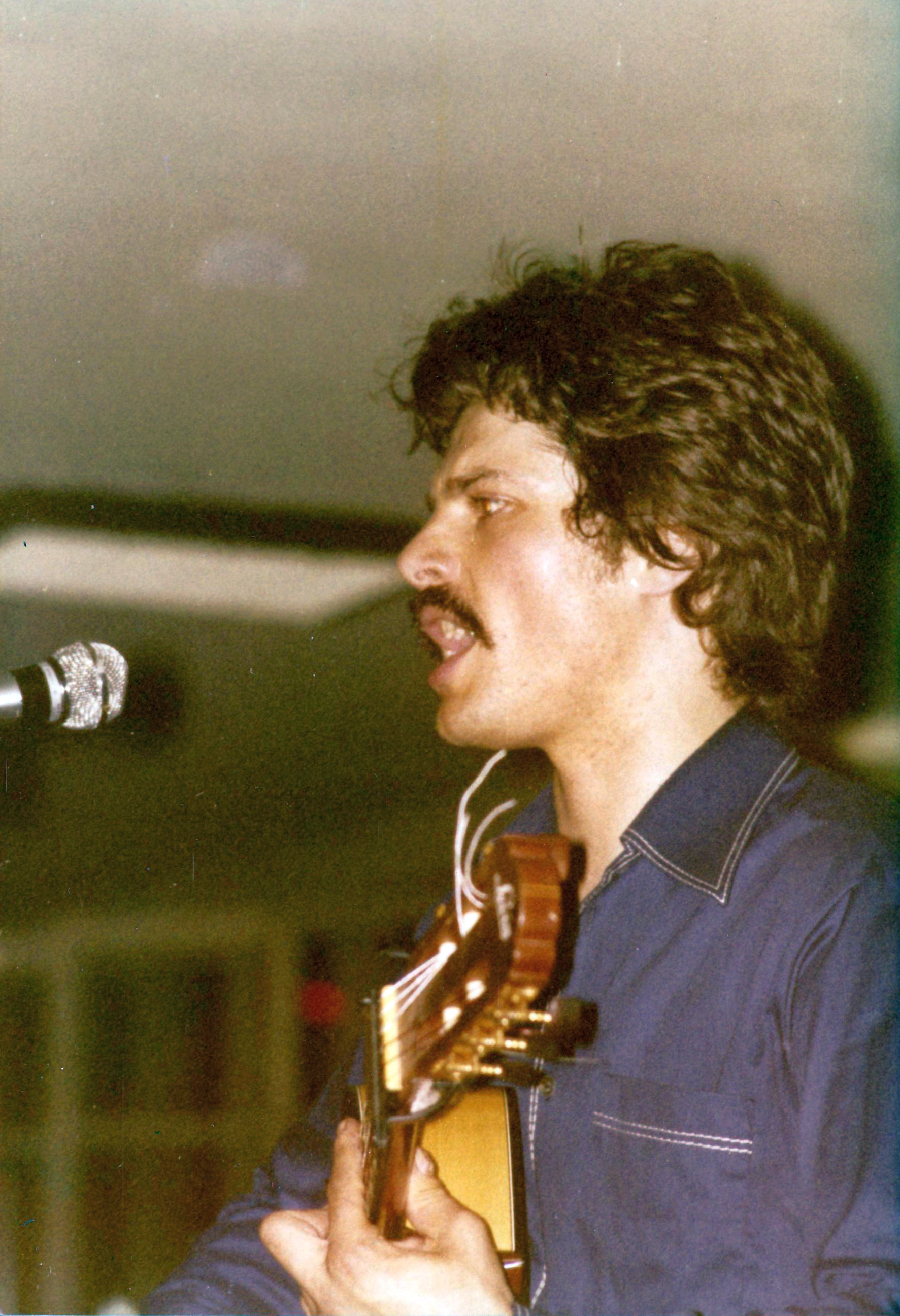 Hamburg